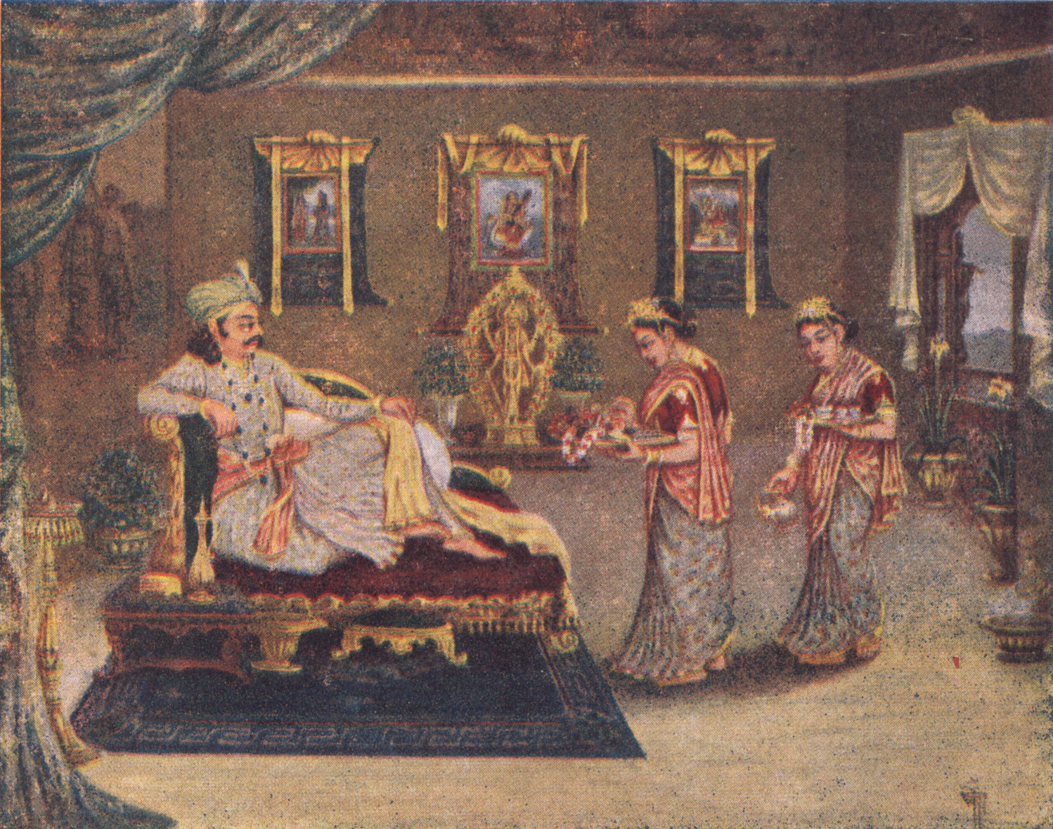 Illustration painted by Chandra Man Maskey showing the Buddha's father Śuddhodana, from the book Sugata Saurabha written by Chittadhar Hridaya and published in 1949.